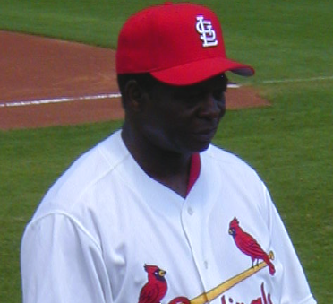 Lou Brock in Jupiter, Florida during Spring Training in 2005.